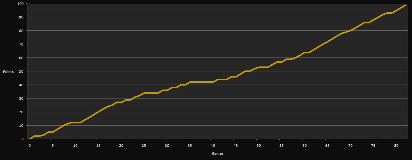 Graph of the 2008–09 Pittsburgh Penguins season points as the season progressed.